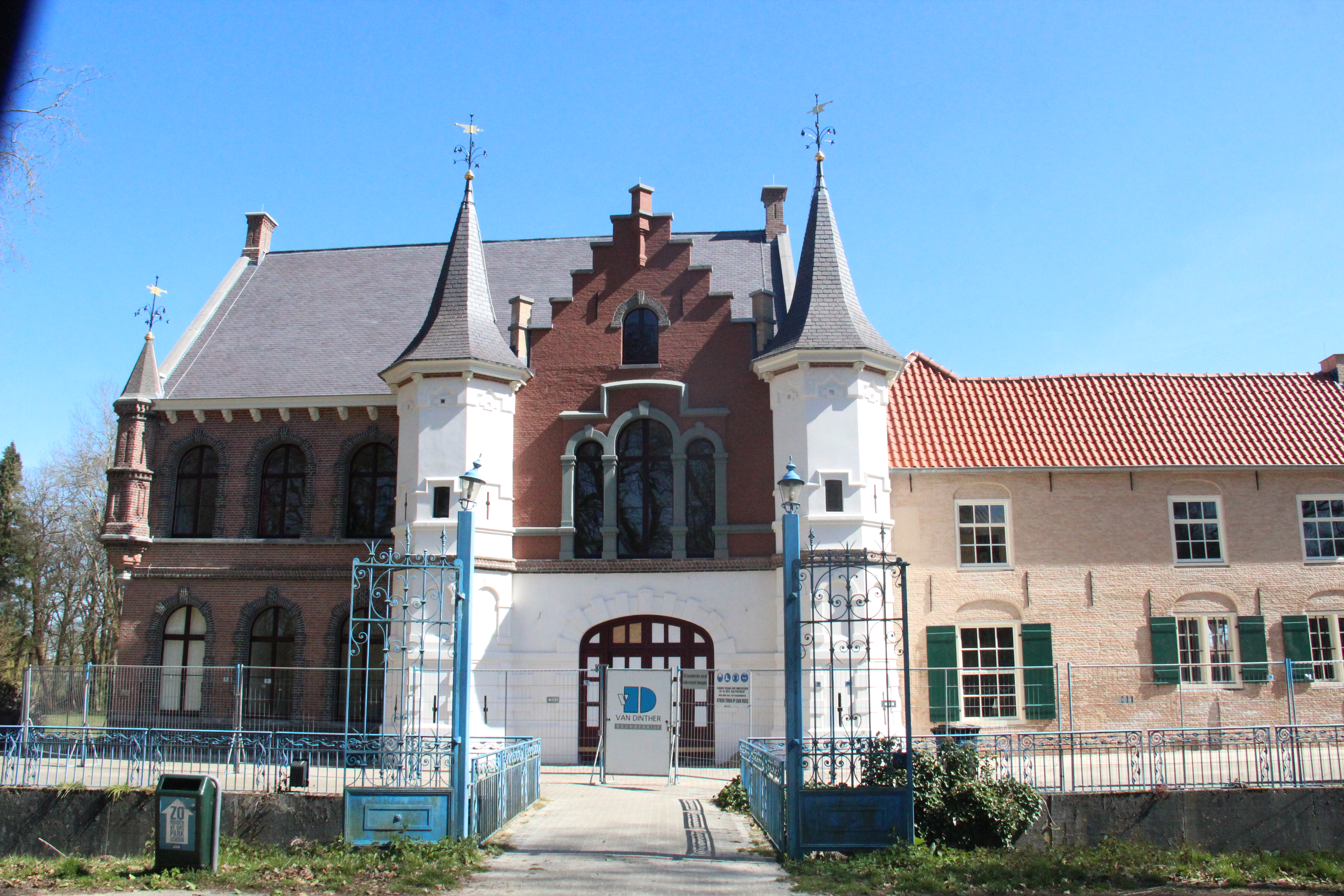 Front side of Castle d’Oultremont